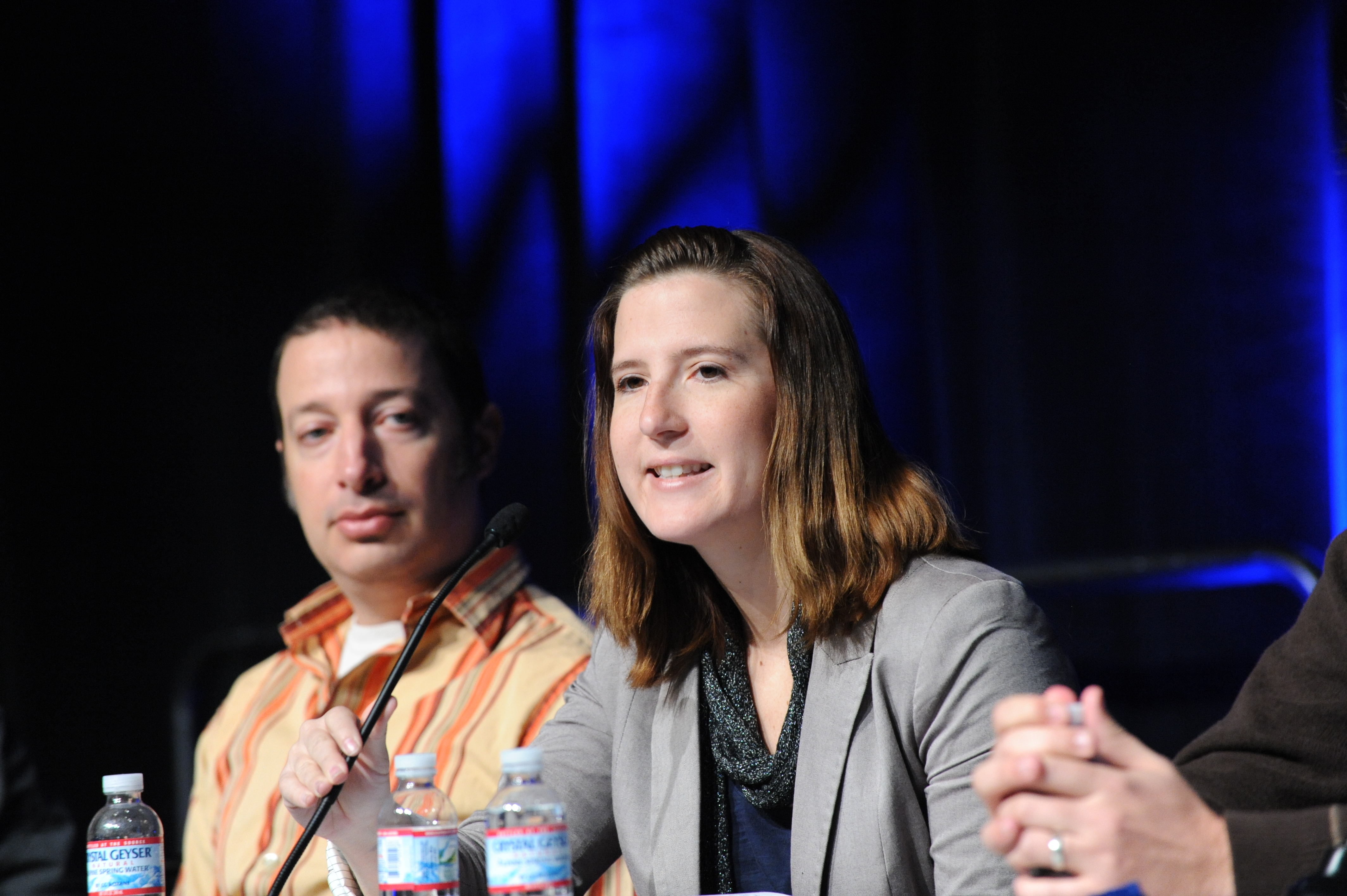 Kellee Santiago at the Game Developers Conference in 2011 (second day), in the North Hall.